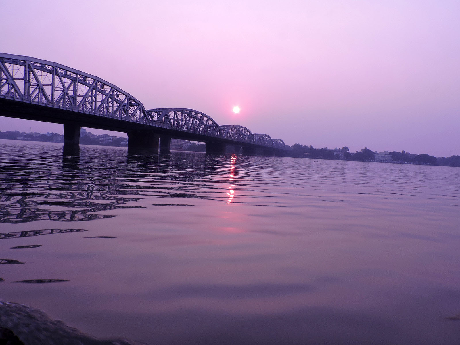 Sunset on the Hooghly River with Vivekananda Setu (Bally Bridge), Kolkata, India